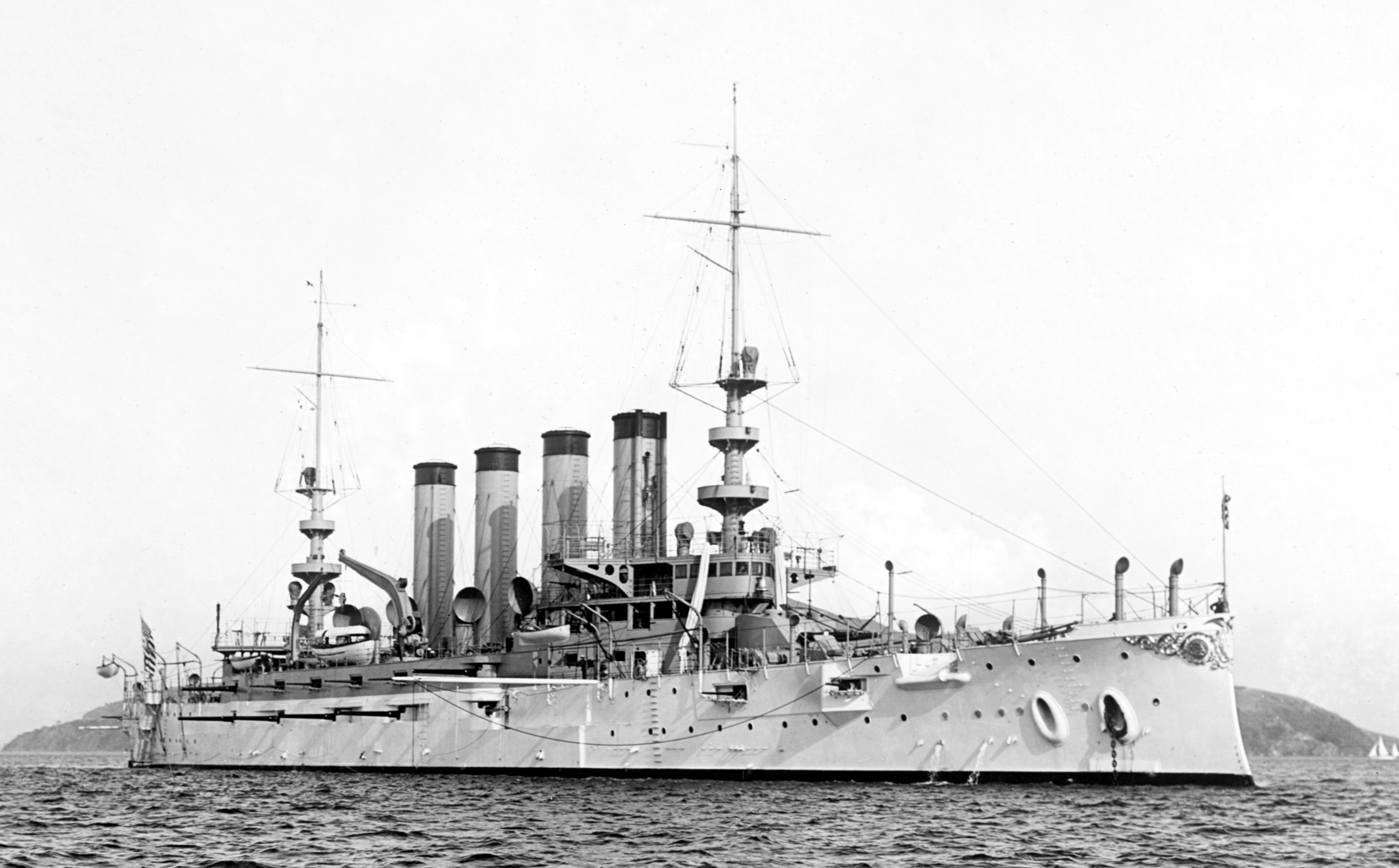 No. 2, U.S.S. California, Oct. 27, 1907